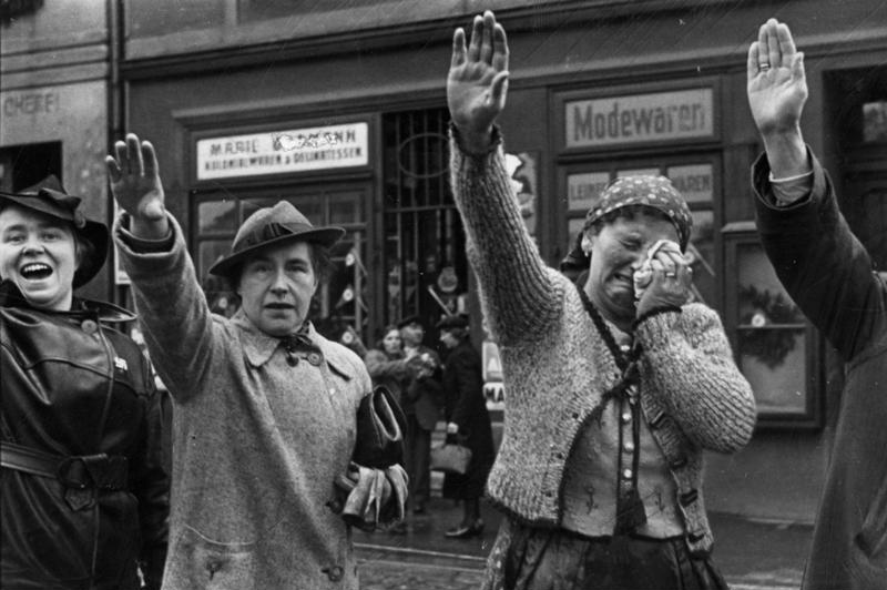 People of Cheb salute the German troops entering the town in the Anschluss of the Sudetenland in October 1938.